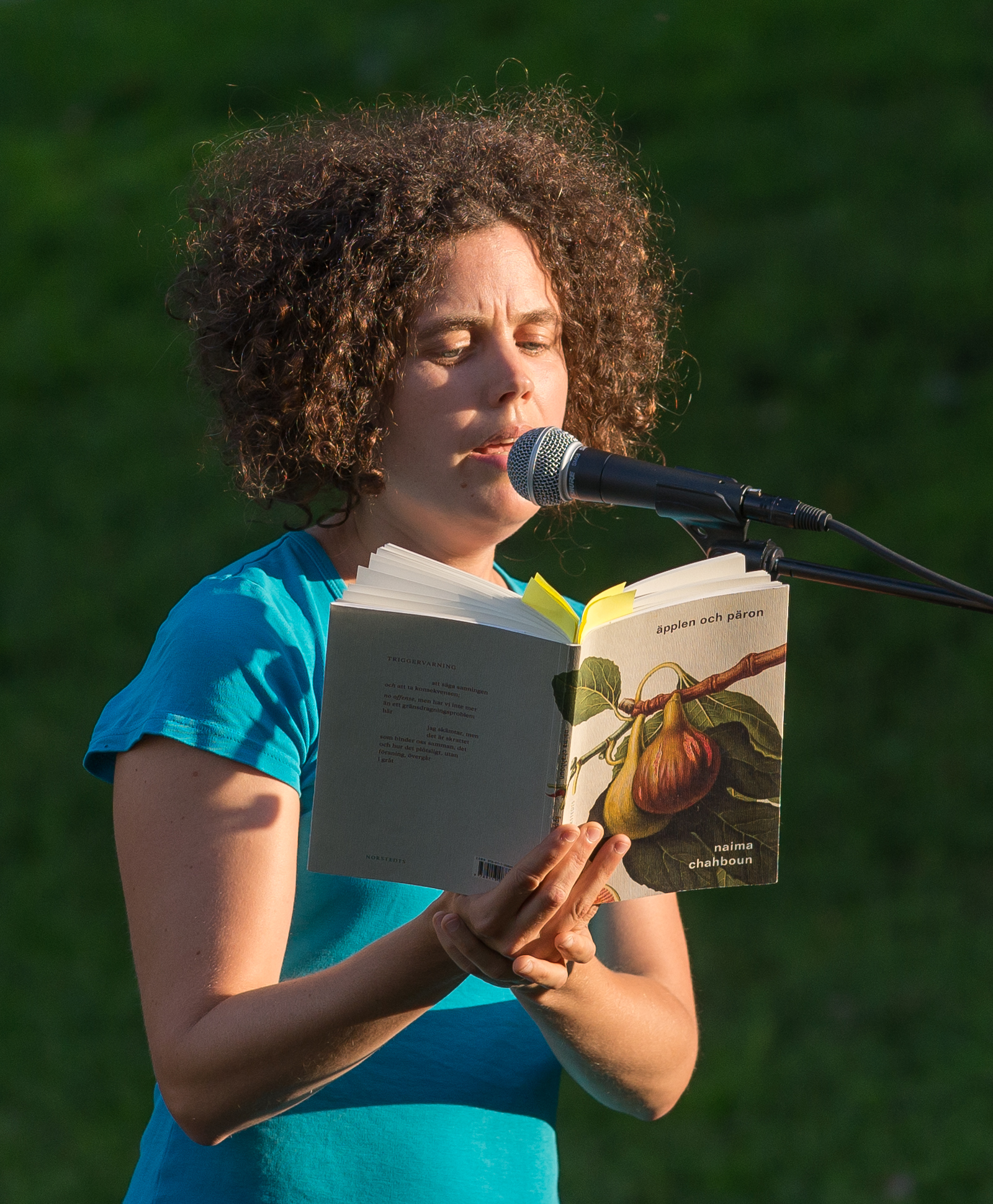 Naima Chahboun reads her own poems during Poetry in the Park, arranged by the Stockholm City Library.